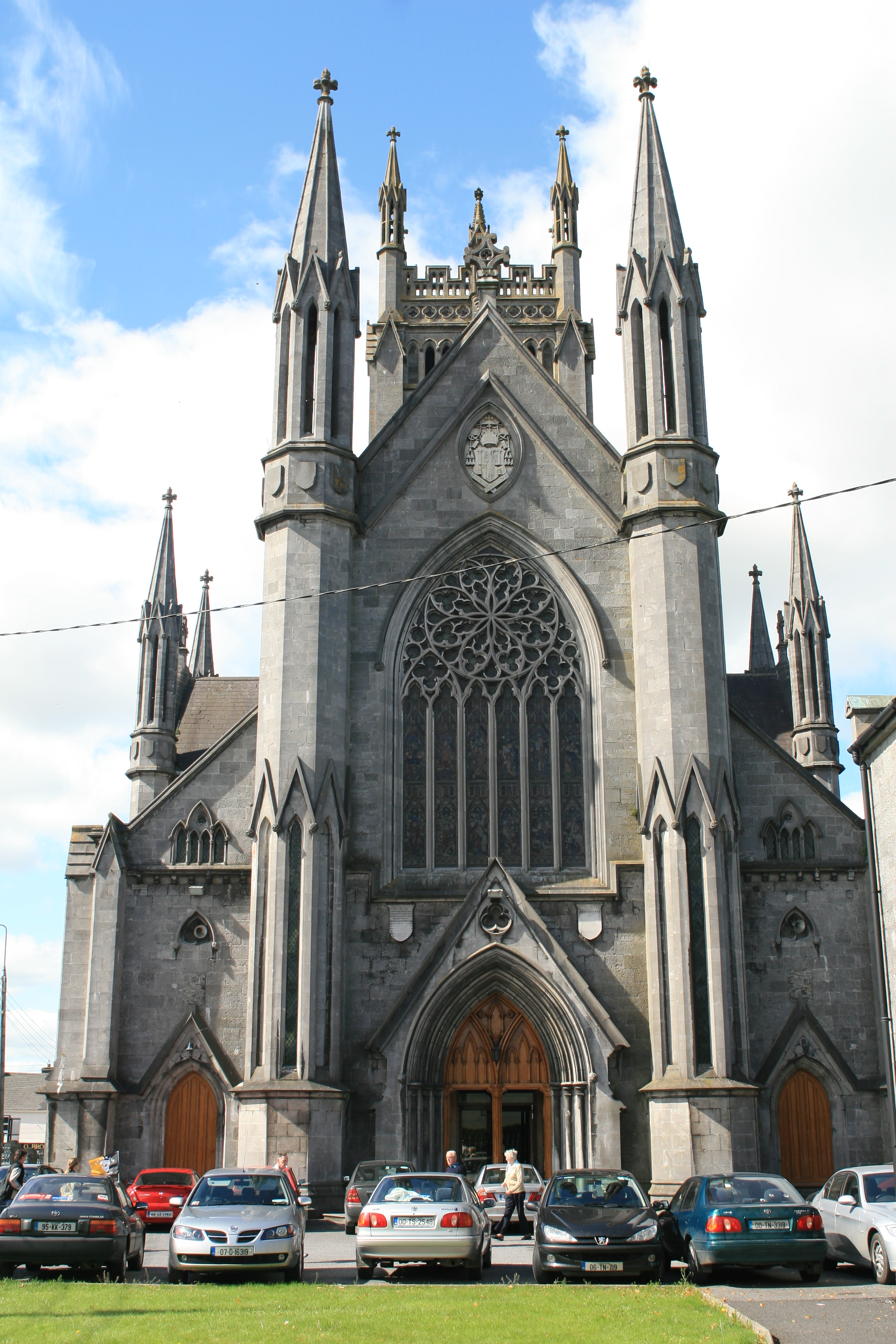 Kilkenny, Co. Kilkenny, Ireland East view of St. Mary's cathedral.